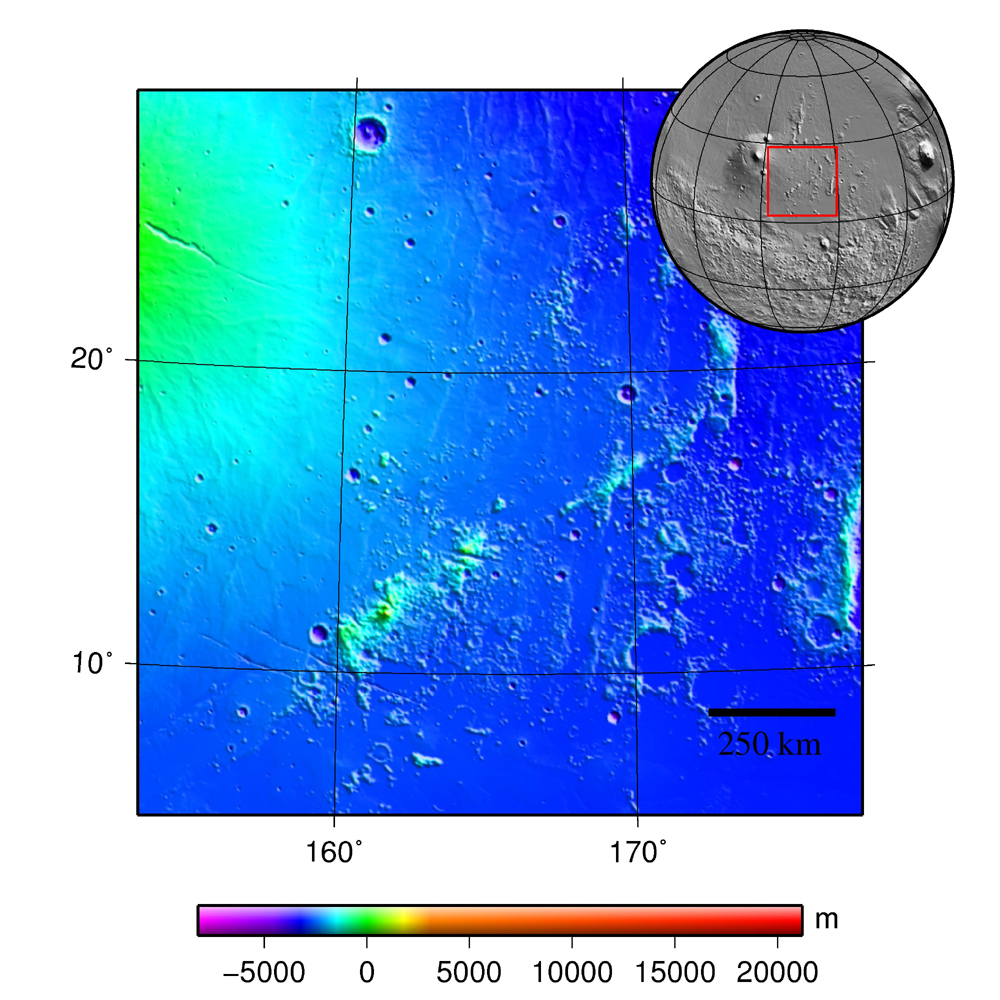 Tartarus Montes (Mars) topography